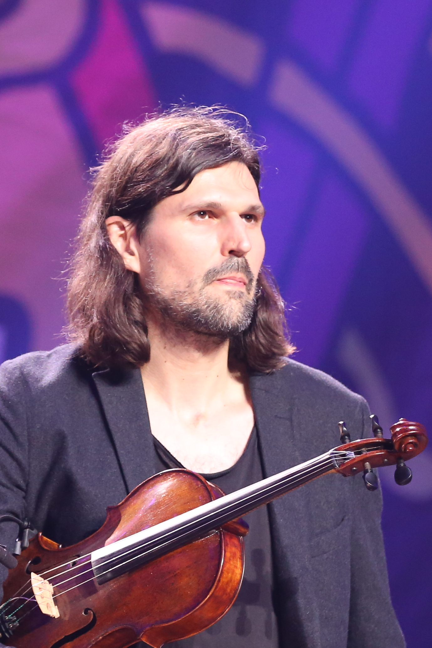 Pol'and'Rock Festival in 2019.